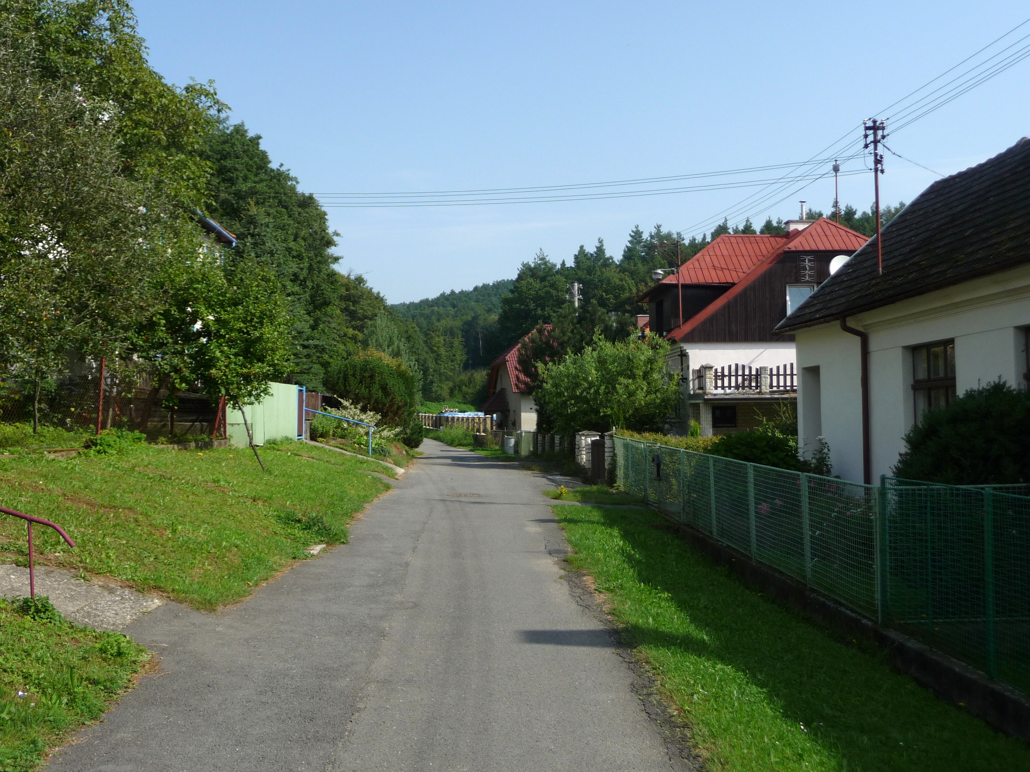 Fryšták, Zlín District, Czechia, part Horní Ves.